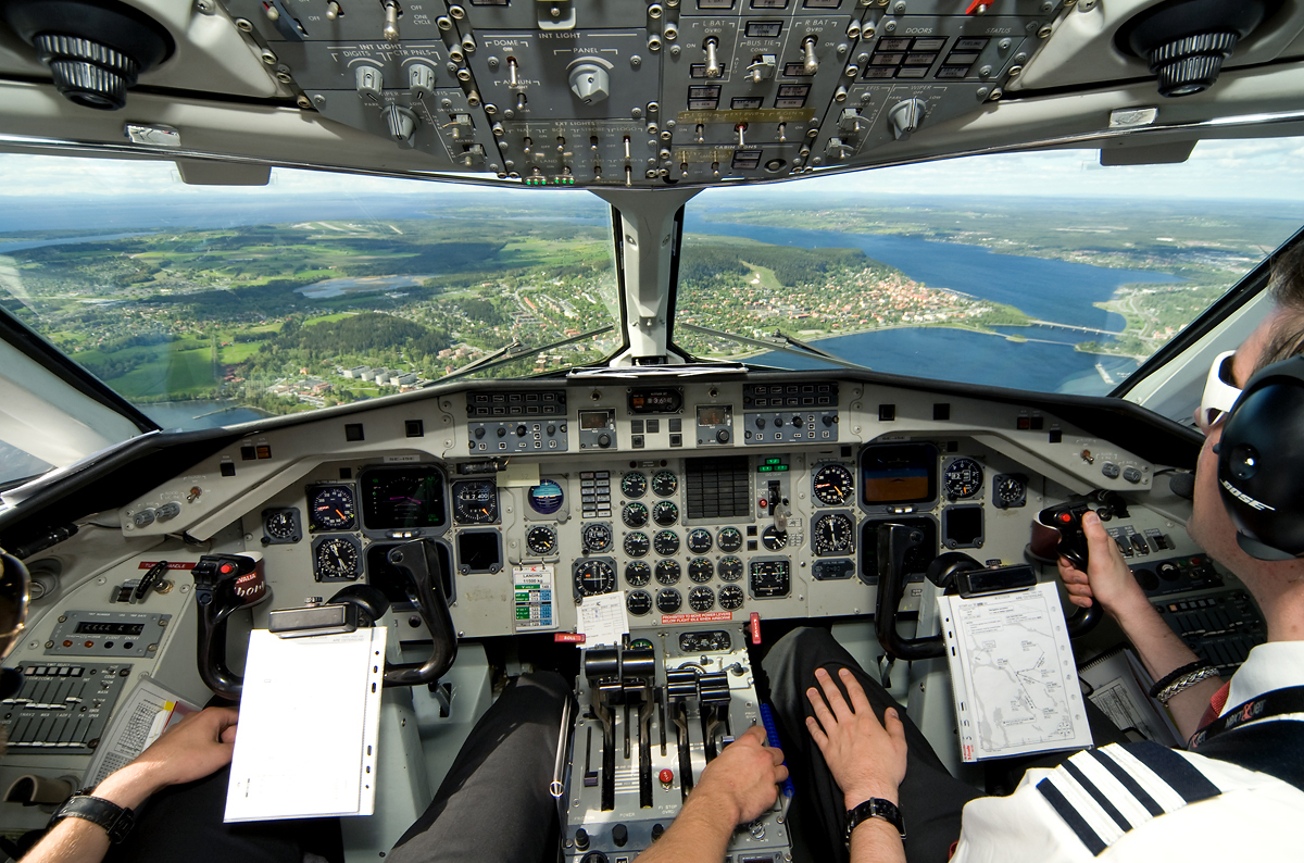 SE-ISE -22